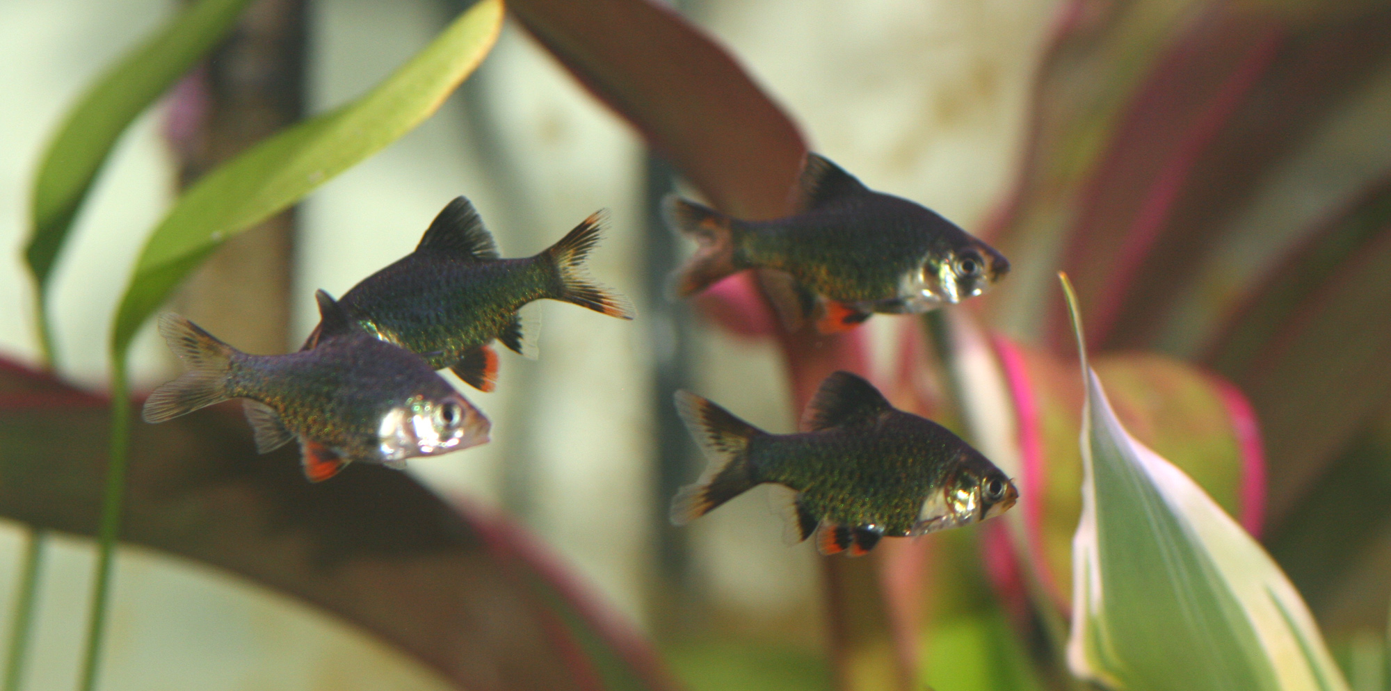 taken by me user debivort November 2006